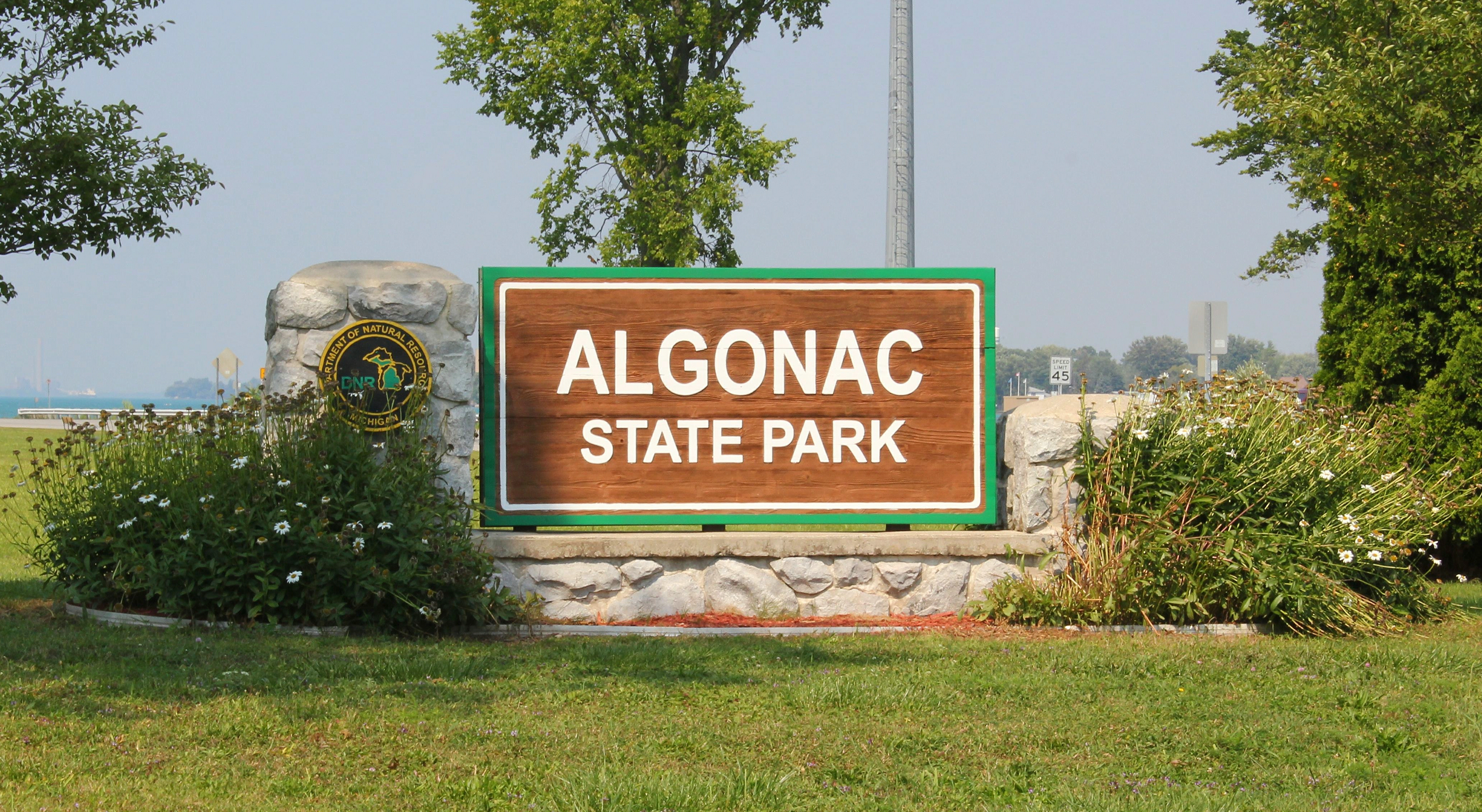 Entrance to Algonac State Park in Algonac, Michigan.